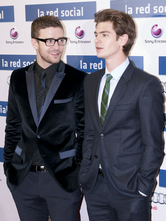 Justin Timberlake (left) and Andrew Garfield (right) at the premiere of the film The Social Network in Madrid, Spain, on 6 October 2010.